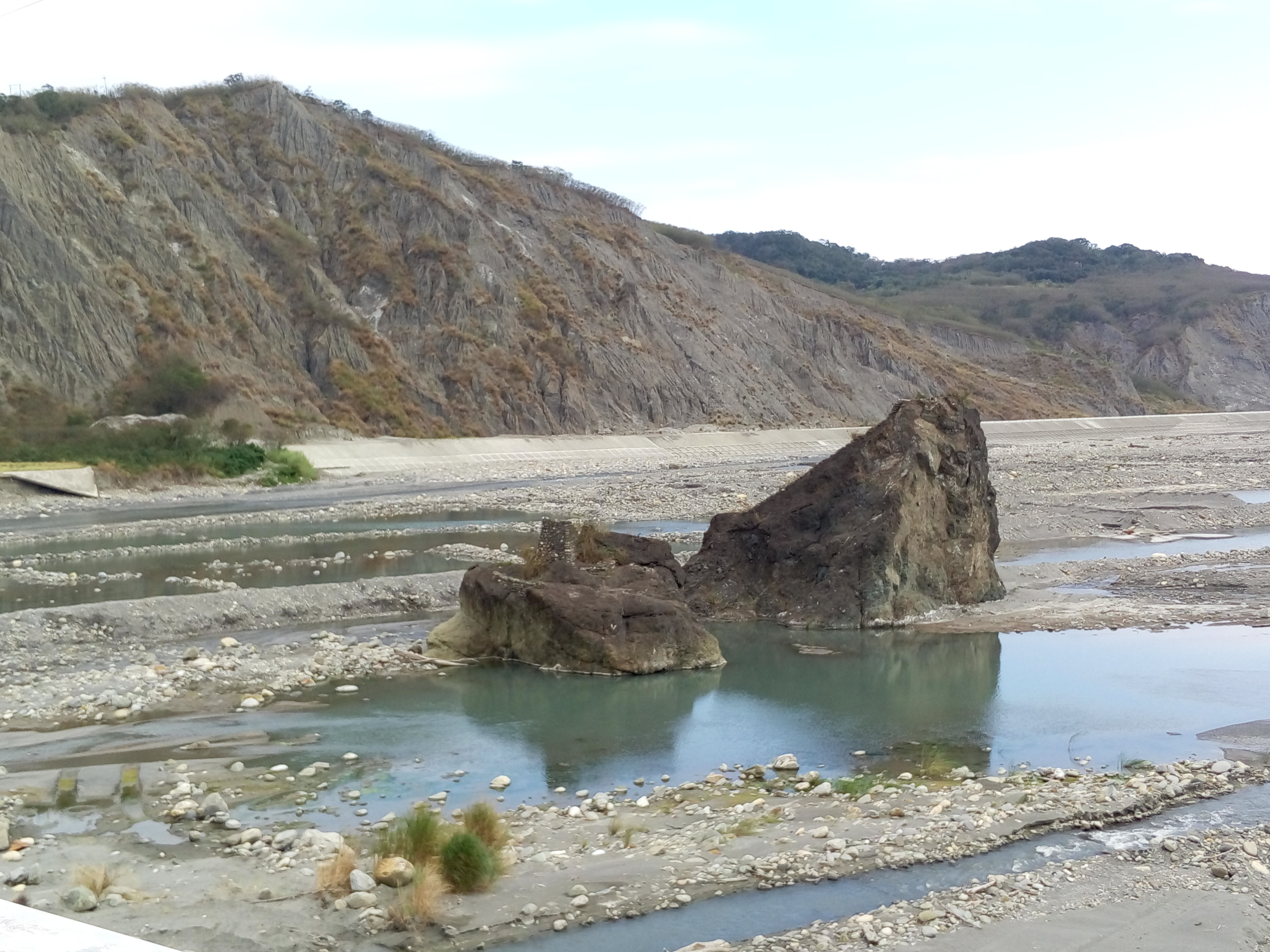 Taiwan(R.O.C)Taitung Liji Flow cage Remains